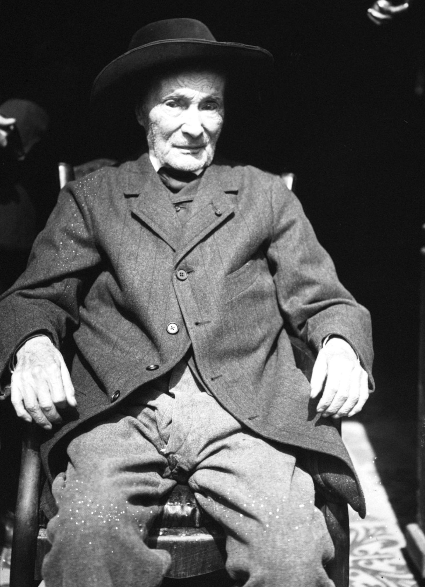 French entomolgist Jean-Henri Fabre (1823-1915) seated in the doorway of his house in Sérignan-du-Comtat